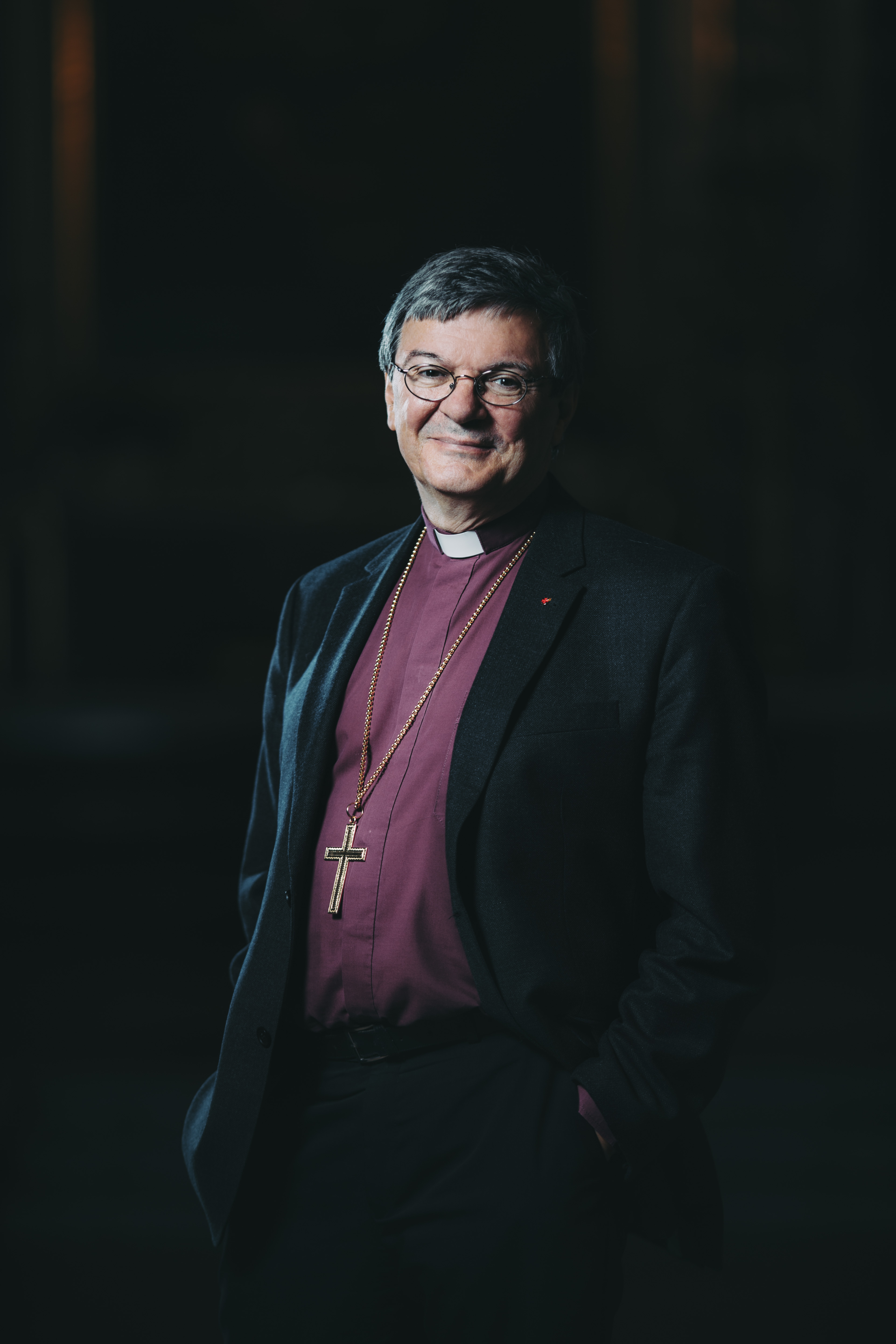 Turun piispa Kaarlo Kalliala